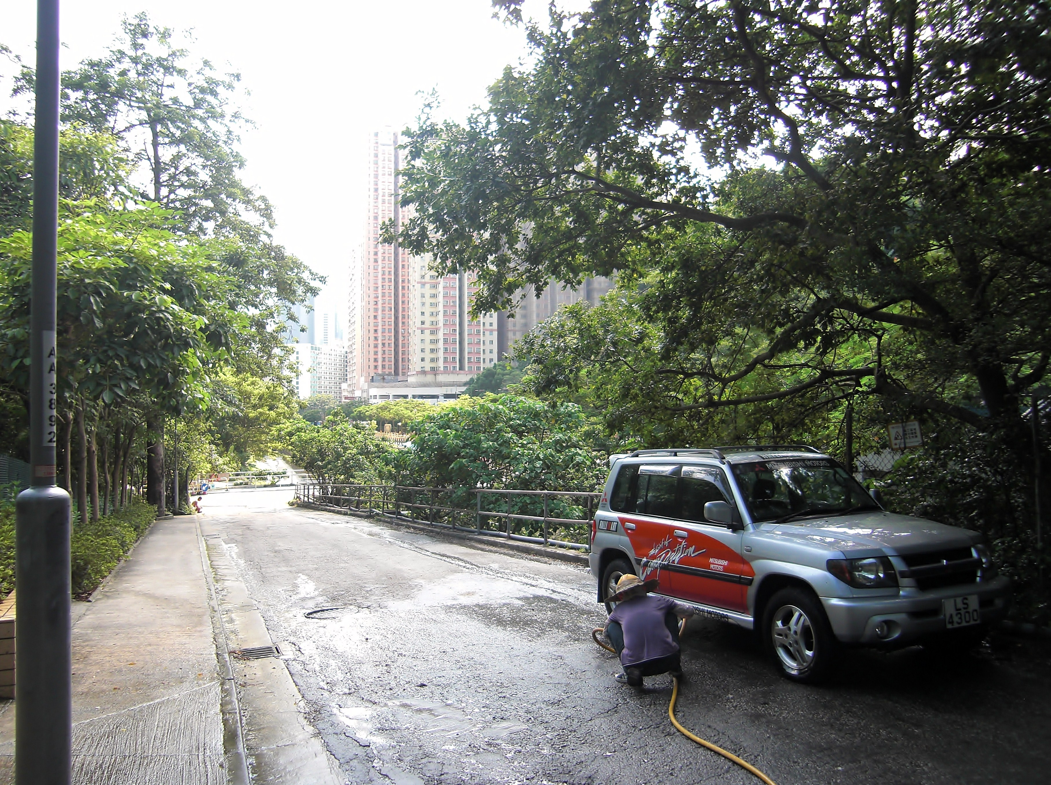 Looking towards the southwest from the former Jordan Valley South Raod. A part of former Jordan Valley South Road is seen.